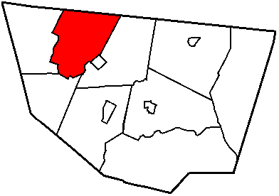 Map of Sullivan County with township and municipal bondaries is taken from US Census website [1] and modified by User:Ruhrfisch in August 2005. My modifications licensed under the GNU Free Documentation License. Source: US Census website [2], modified by User:Ruhrfisch